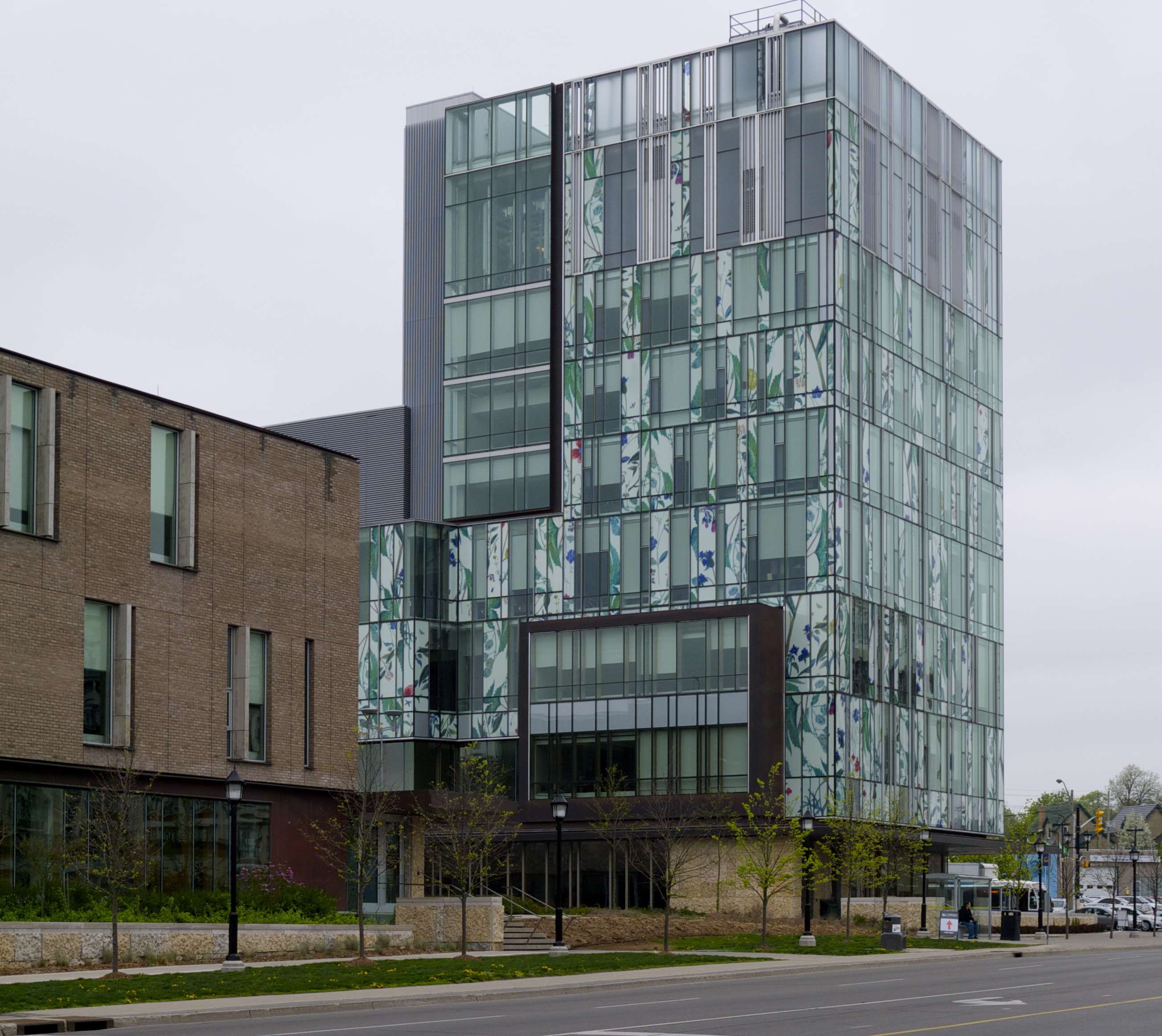 School of Pharmacy - University of Waterloo. Building located in Kitchener, Ontario.